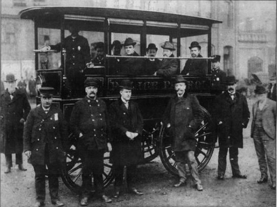 World's first police wagon that was developed in Akron, Ohio. Inventor Frank F. Loomis is at steering wheel.